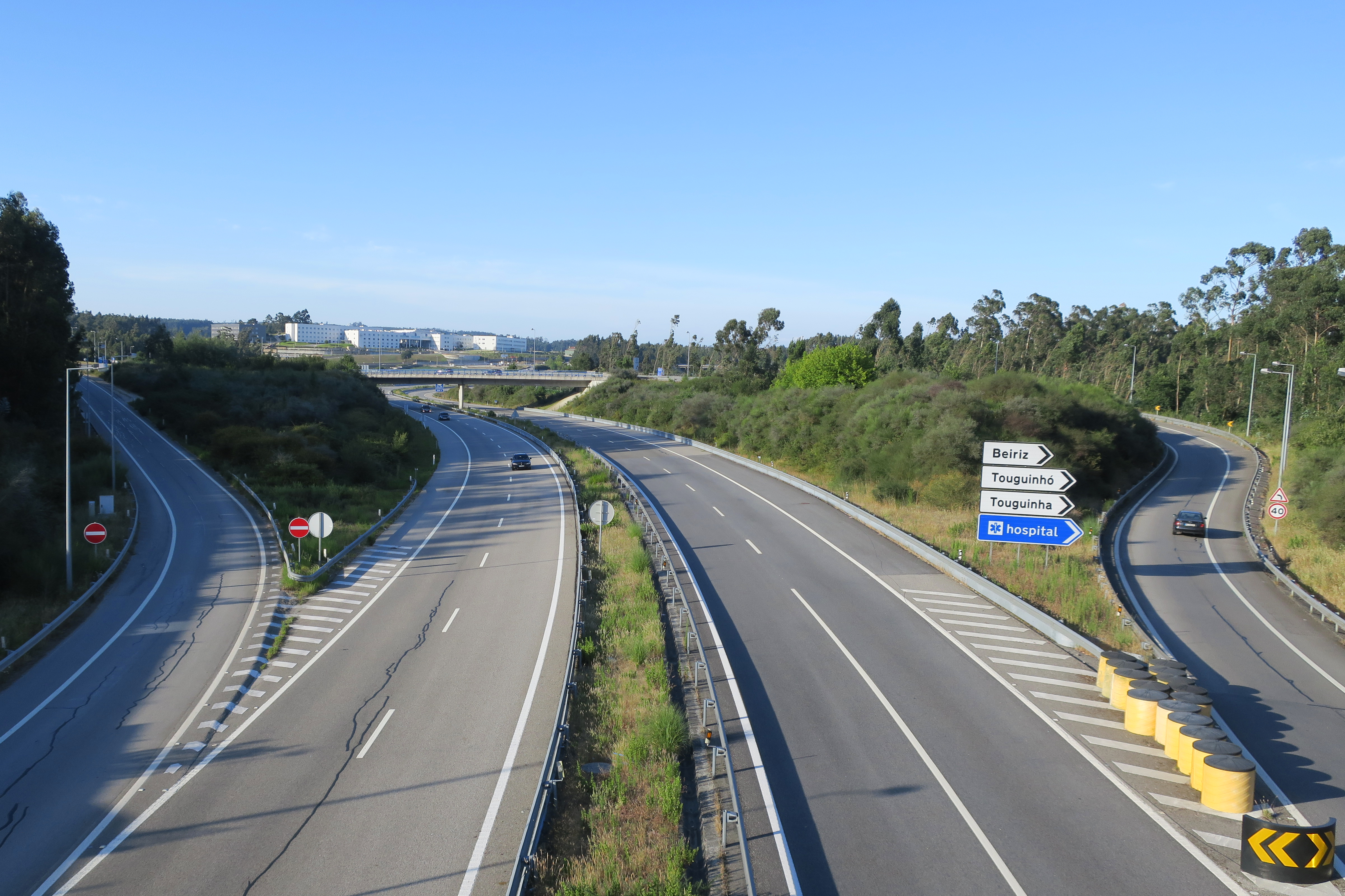 A7 motorway near Senhor do Bonfim hospitals, Vila do Conde.